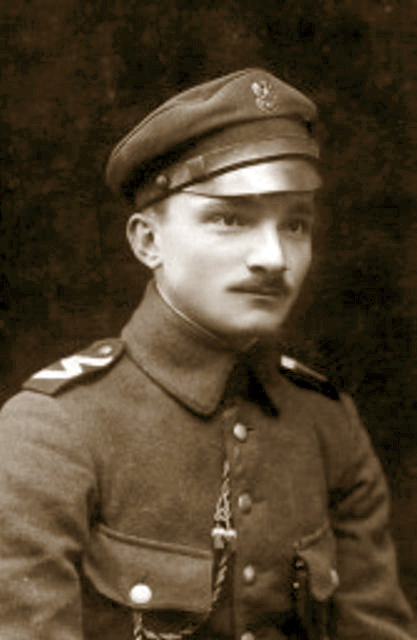 Teofil Ney (1893-1940) – Major of the Polish Army, victim of the Katyn massacre